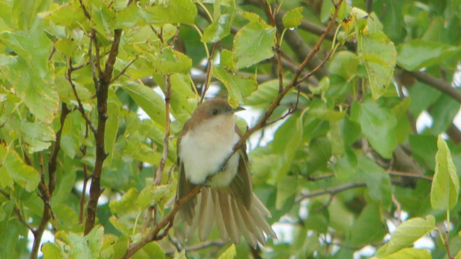 Riverlands Migratory Bird Sanctuary - 9/1/12